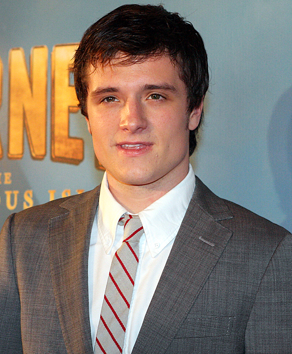 Josh Hutcherson at the Journey 2: The Mysterious Island, Film premiere in Sydney 2012.